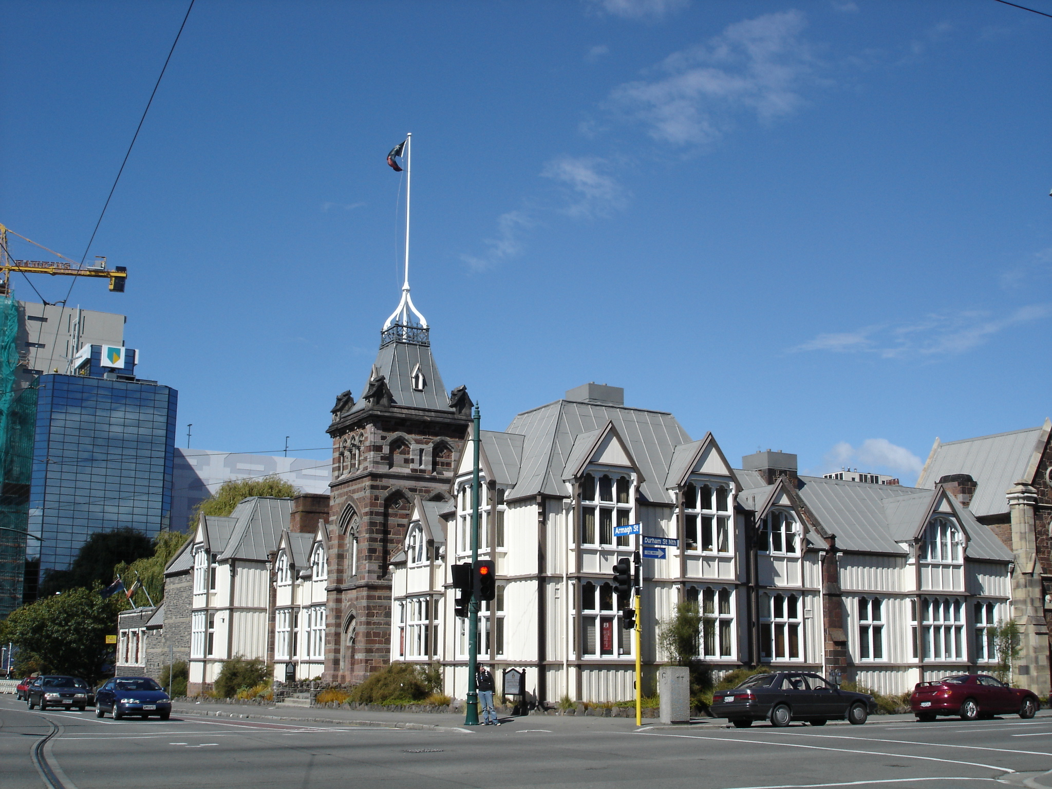 View along Armagh St in 2006.